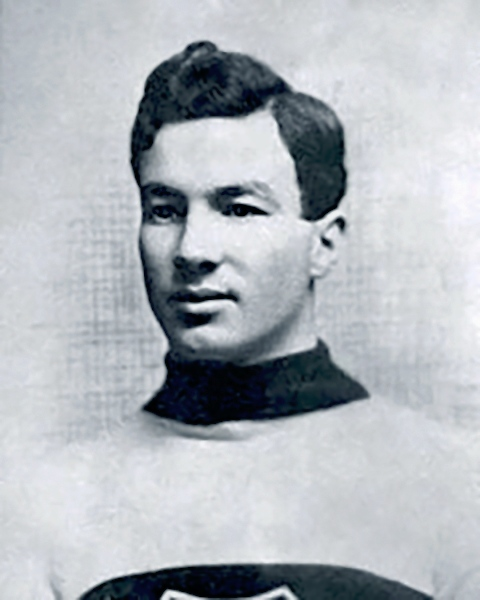 A photo of Art Ross, defenceman of the Montreal Wanderers, between 1907 and 1918. This photo was taken during that time, so the copyright has expired on it.